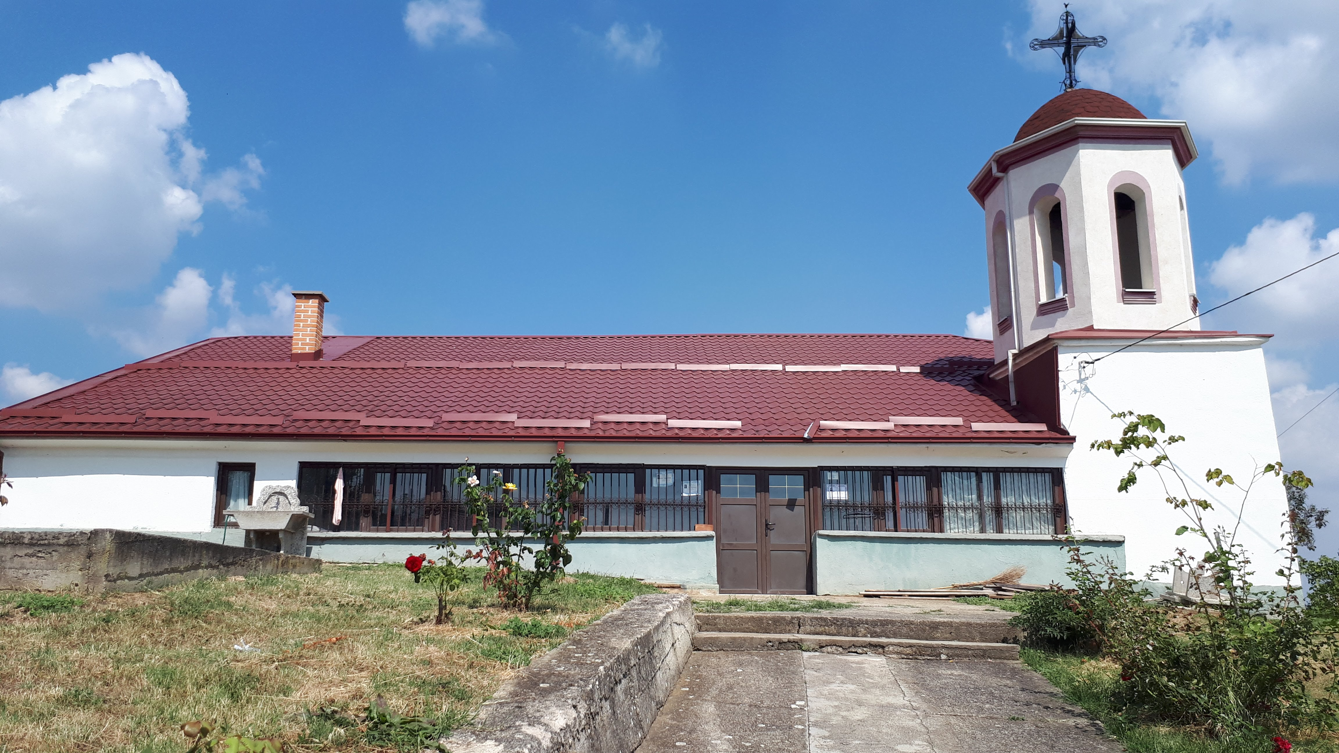 St. George Church in the village of Oleveni